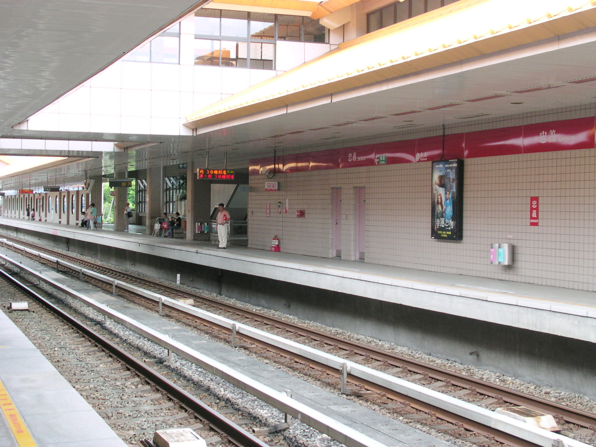 Inside Taipei MRT Zhongyi Station.